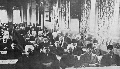 A view of the conference in Jerusalem. Iqbal is seen sitting on the extreme right in the first row (1931).